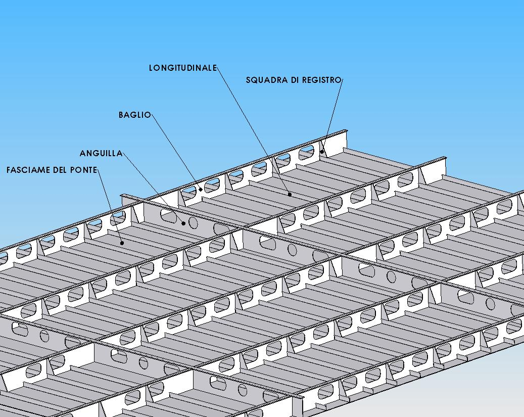 Steel ship deck structure